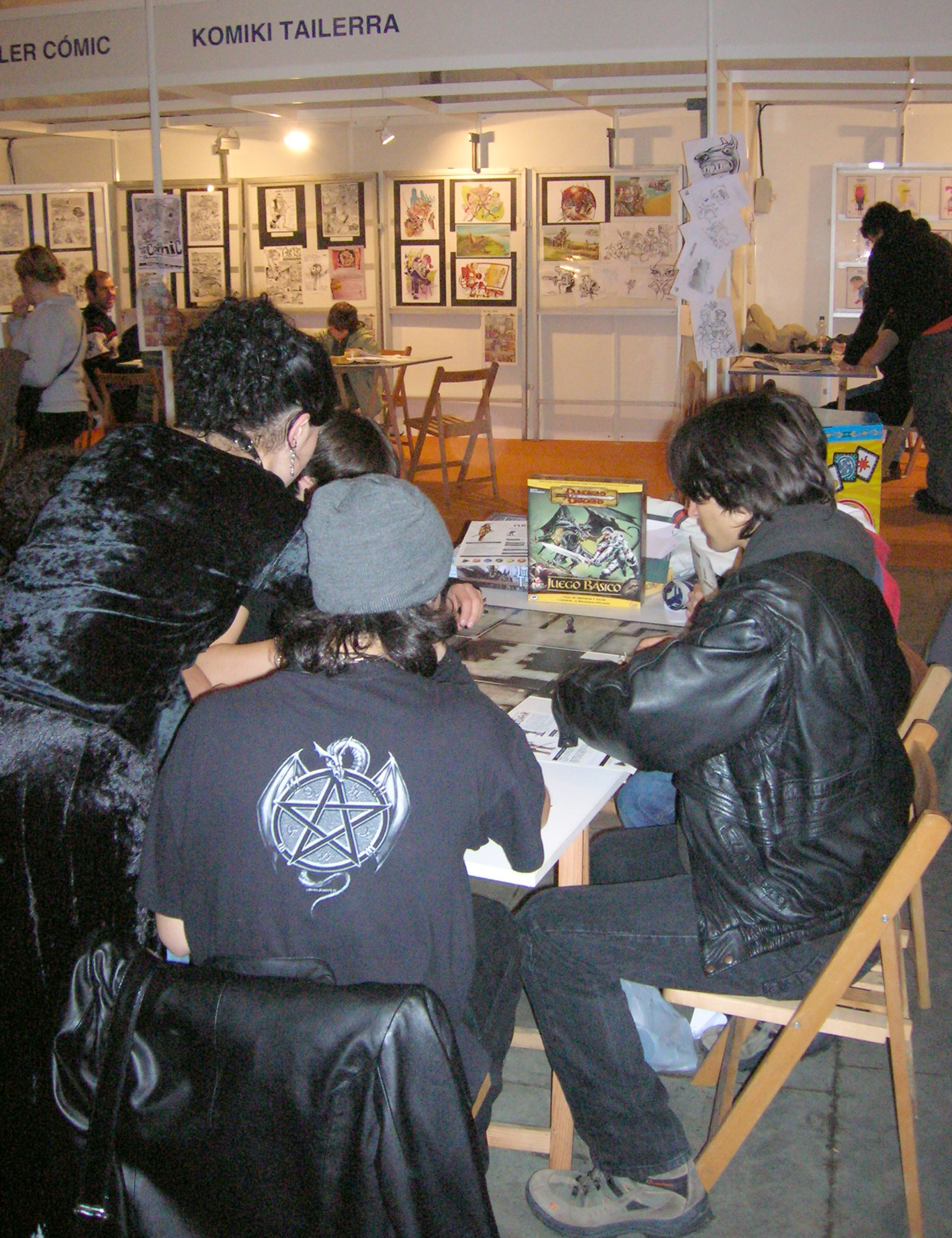 Dungeons & Dragons game in IV Getxo Comic Con.